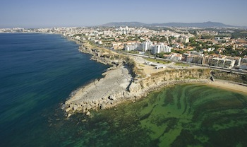 Pedra do Sal - S. Pedro do Estoril